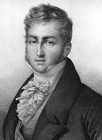 Jules de Polignac (1780-1847), French statesman